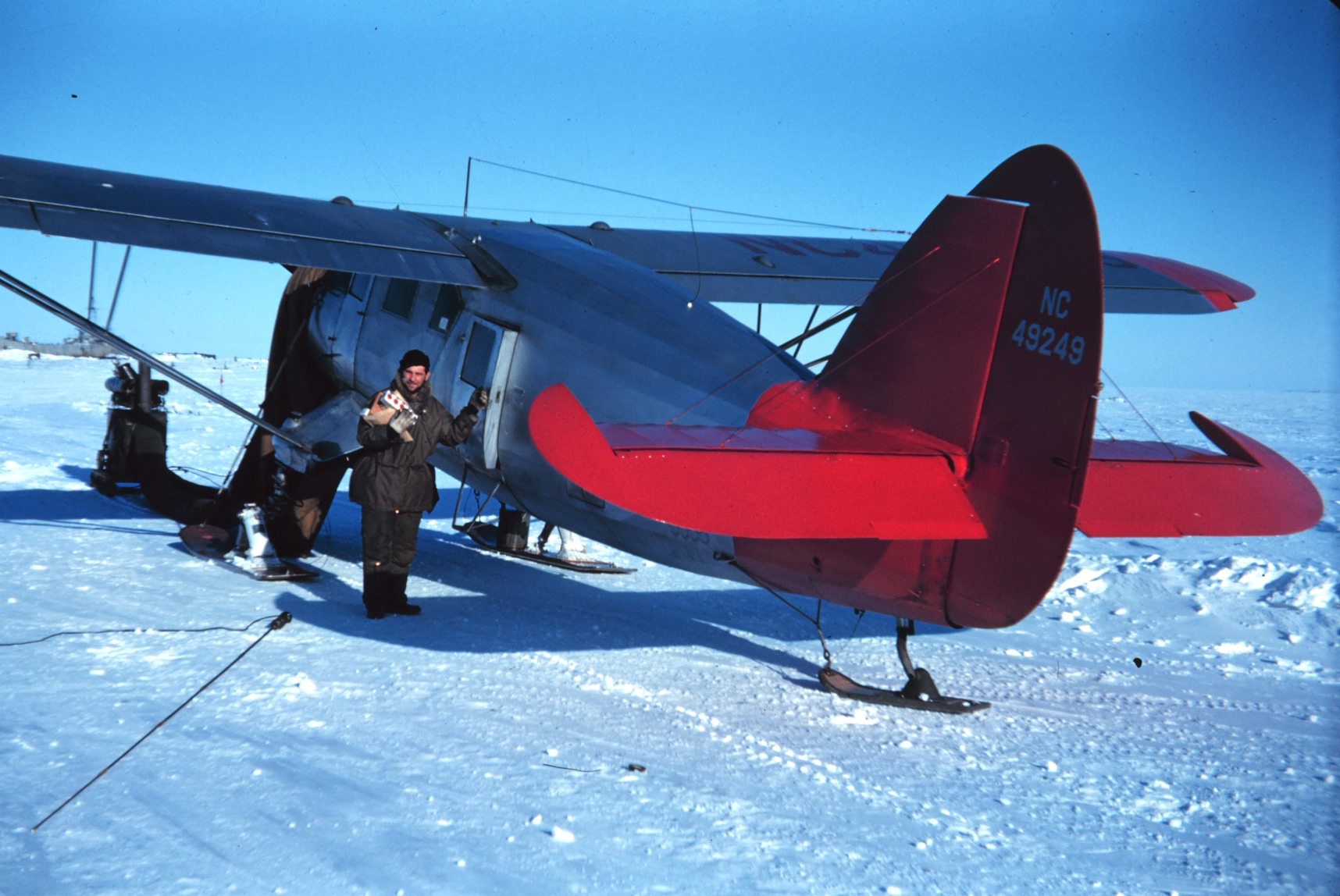 "A ski-equipped Norseman plane at Tigvariak Island. Alaska North Slope. Spring 1949." FAA shows the number 49249 for Noorduyn sn 186, built 1943, last registered to Alaska Airlines, certificate issued 3/12/1949, canceled 10/11/1955 [1]